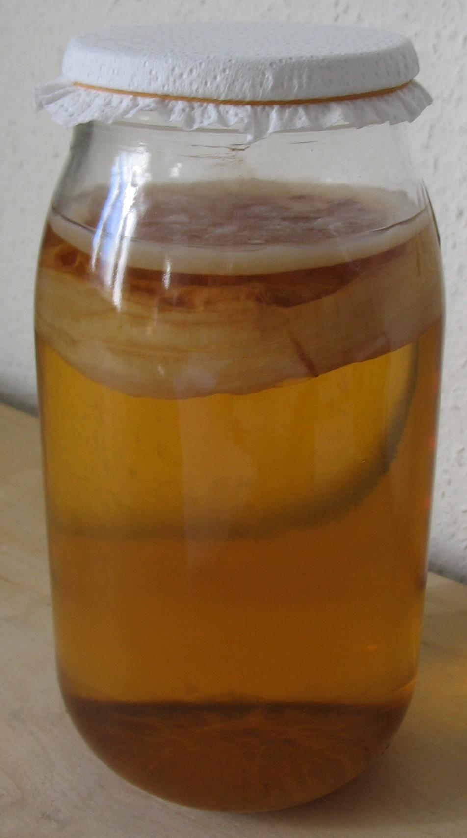 Kombucha Photo of Kombucha after several weeks of fermentation. Image taken on 2005-02-14 by me, Bjoern Appel, and put under the GNU FDL.